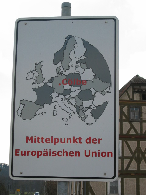 Sign at Cölbe for the Centre of the European Union (2004-2007) as calculated by the Institute for Theoretical Geodesy in Bonn. It was later calculated that this would be at Kleinmaischeid instead (see Cölbe#Sundry).